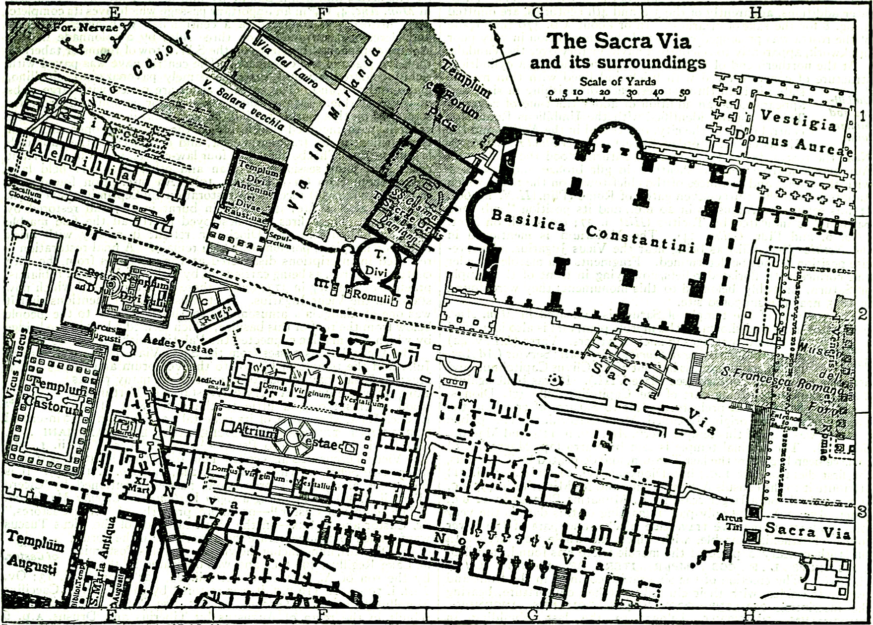 A map of the Roman Forum and the Sacra Via (right half).